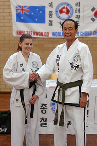 Promotion to Rhee Tae Kwon-Do 1st Dan by World Master Chong Chul Rhee in May 2006.